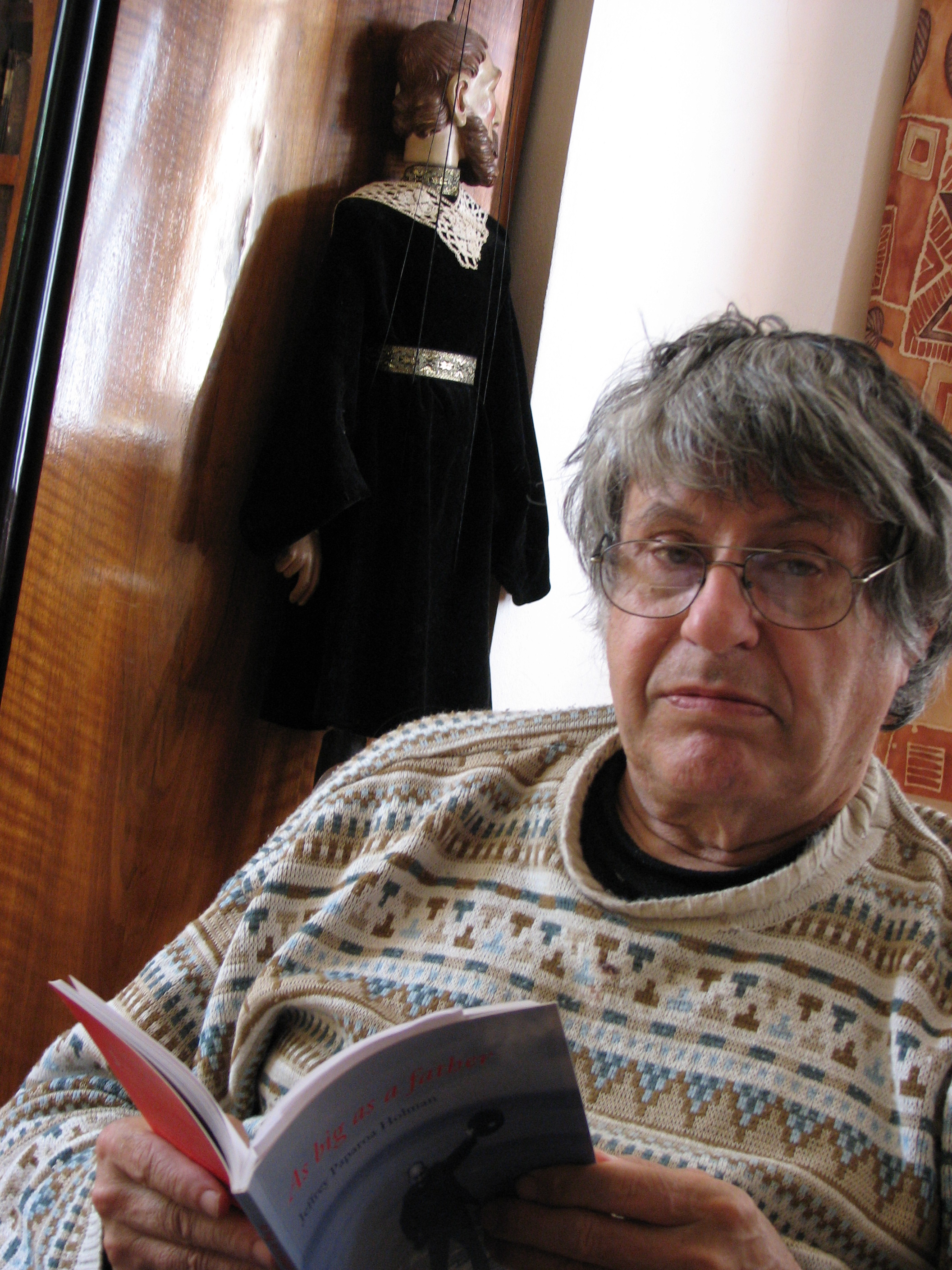 Photo of Ivan Klíma.